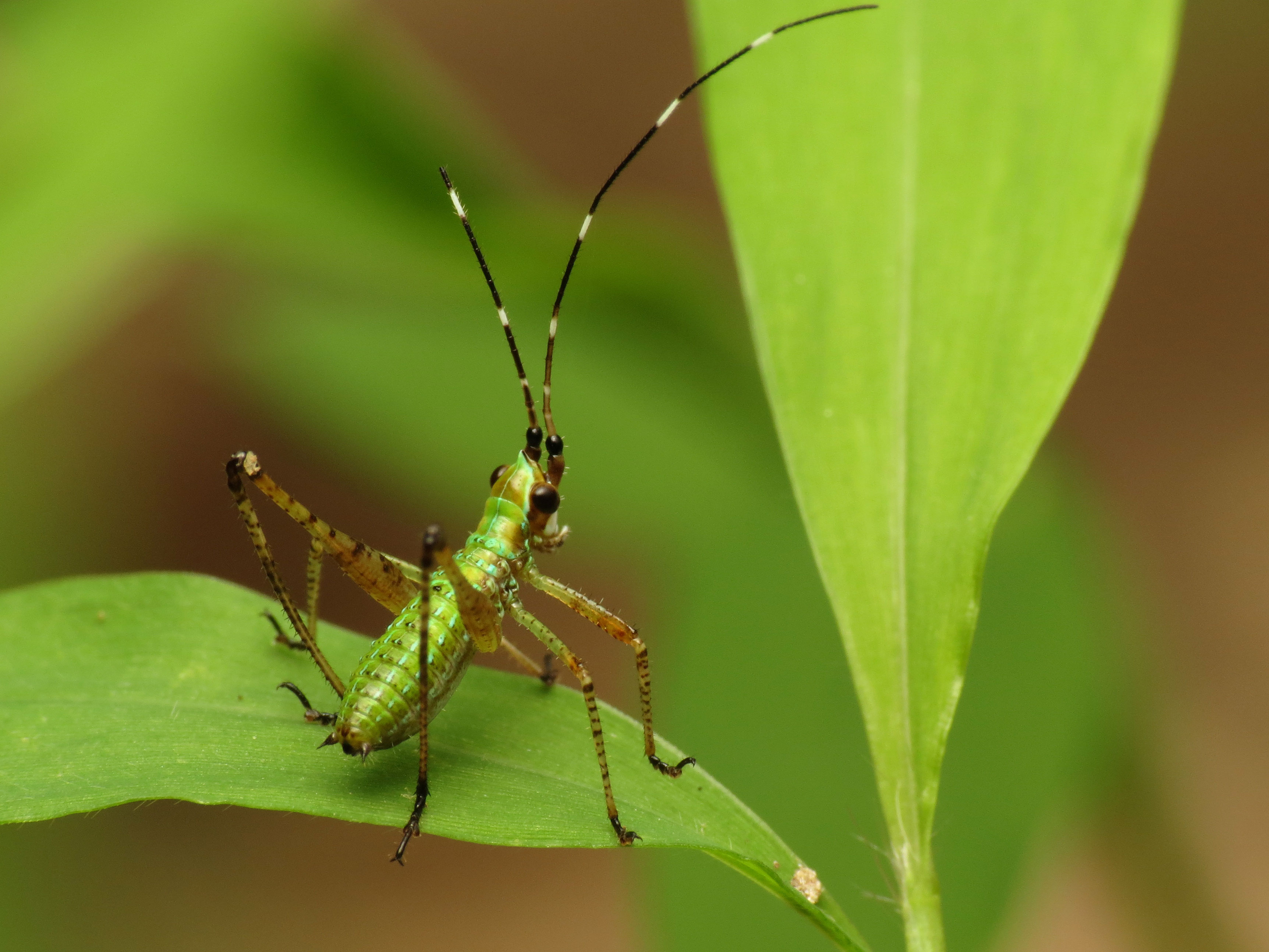 Scudderia sp. Rock Creek Park, Washington, DC.